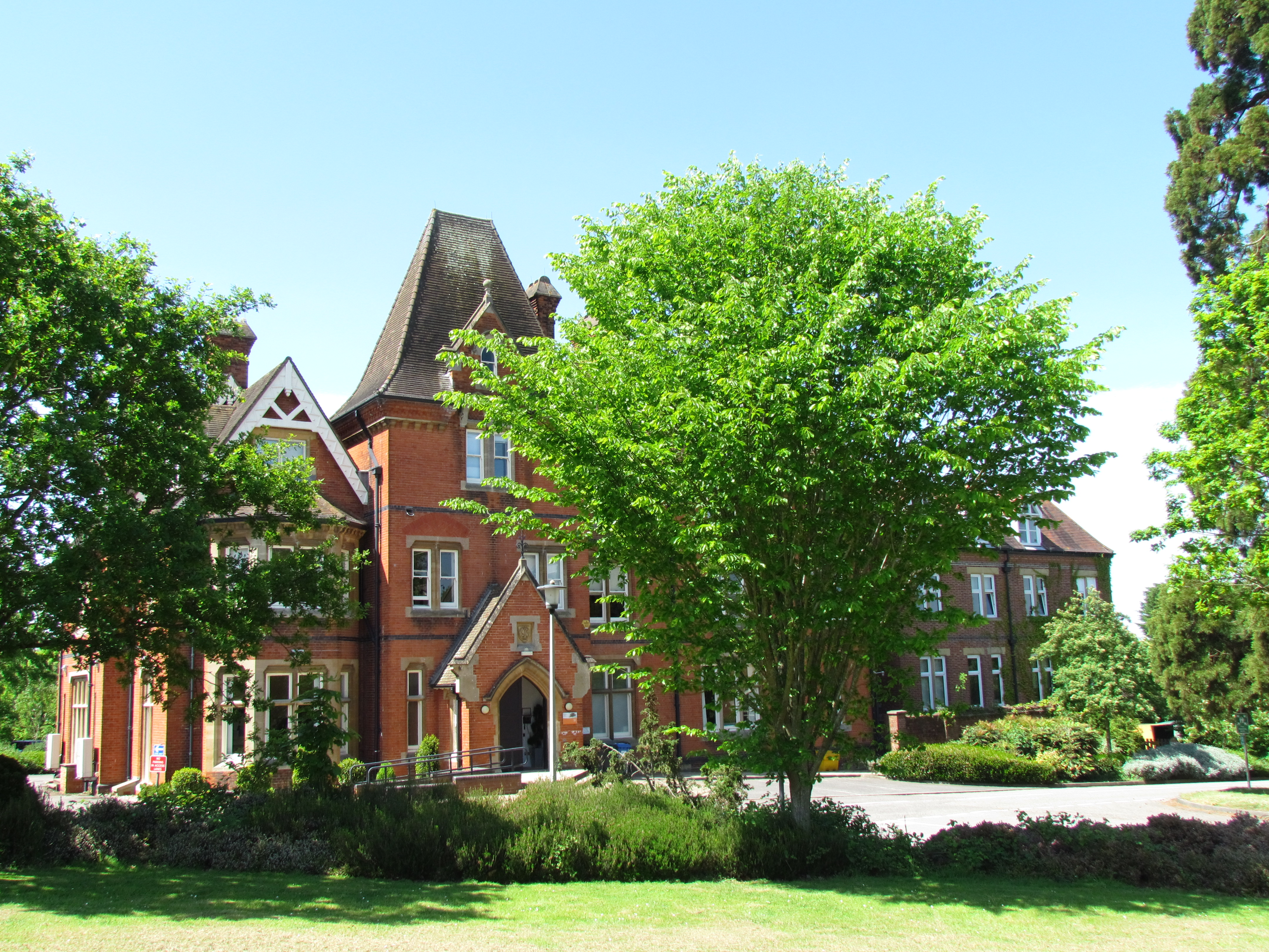 The mansion house purchased by ICI in 1929 and used initially as biological laboratories for agricultural research. The building is now part of Syngenta's research site at Jealott's Hill.